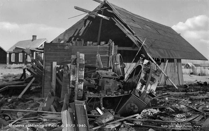 Destroyed building and tractor after the bombing of Pajala 1940